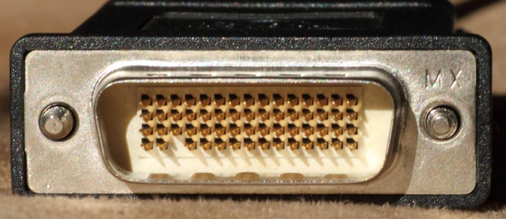 DMS-59 for Multi-monitor graphics cards (Male Connector)